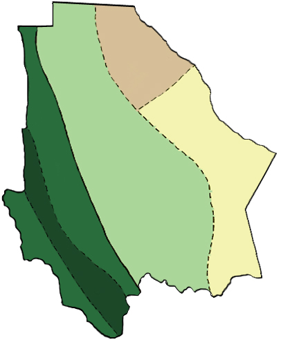 Köppen Climate Zones of Chihuahua Subtropical Highland Cfb Humid Subtropical Cwa Steppe BSk Cool Desert BWh Hot Desert BWk